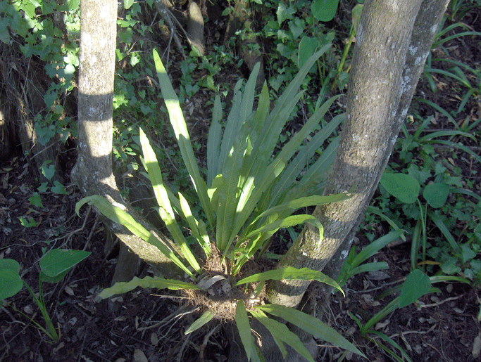 Long-Strap-Fern